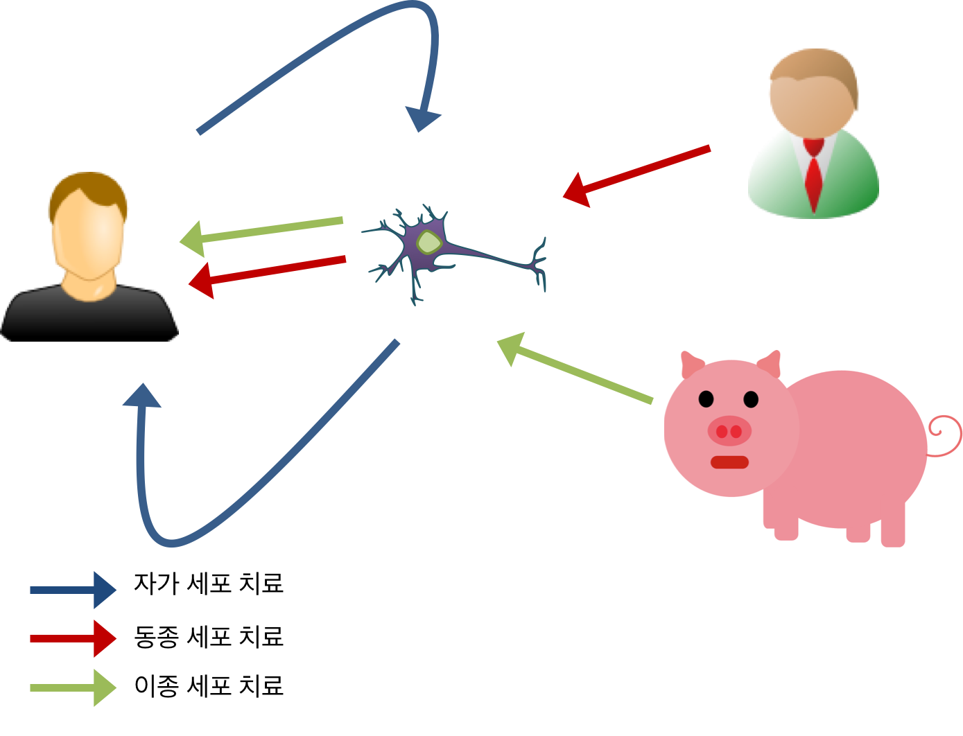 자가 동종 이종 세포 치료